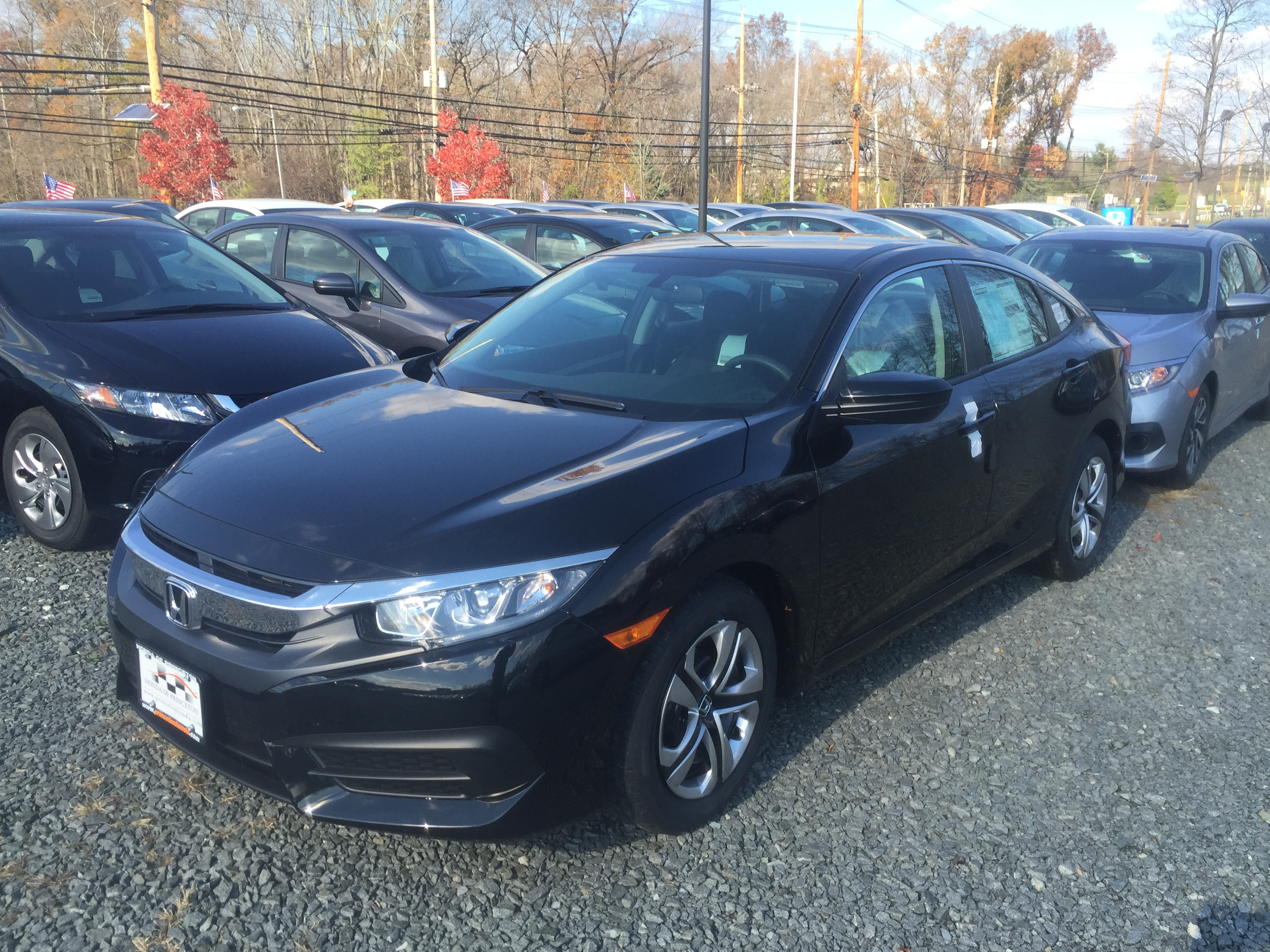 Tenth Generation 2016 Honda Civic on a dealership lot.